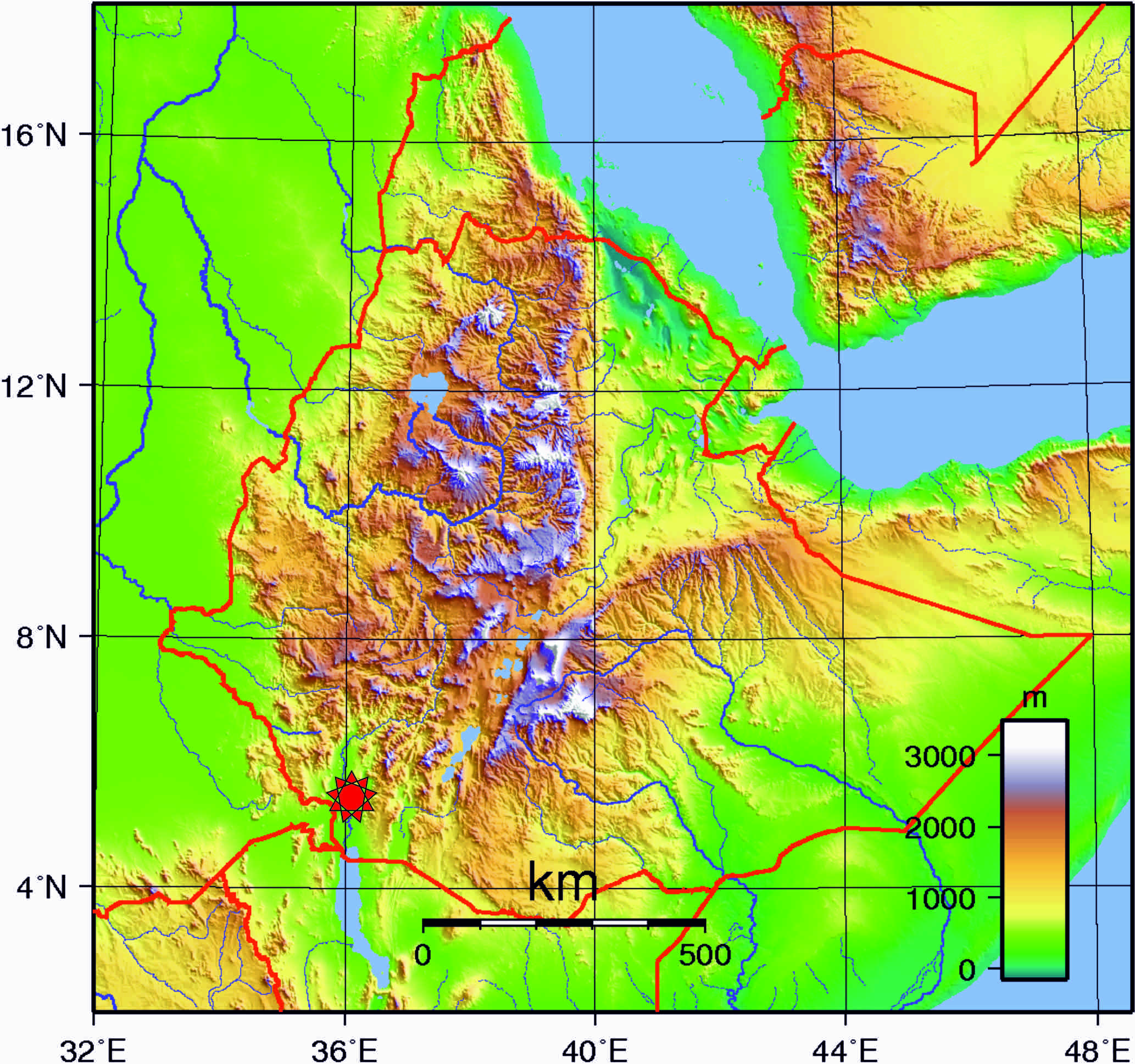 Lower Omo paleoanthropological site